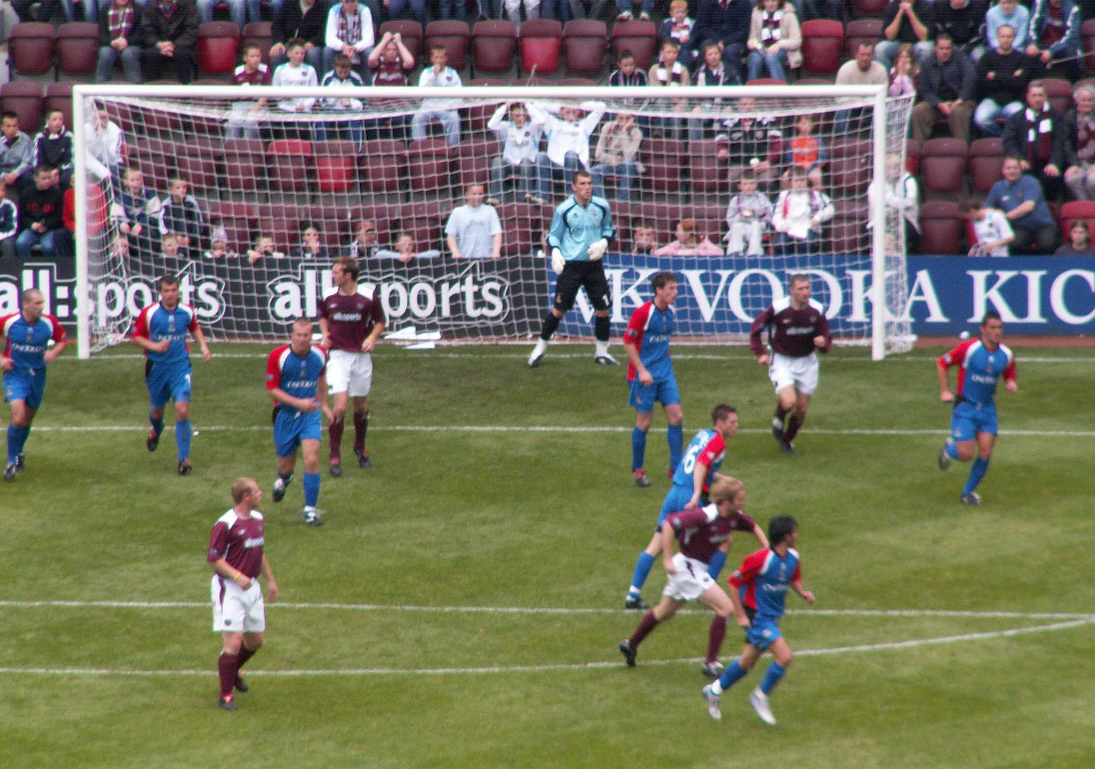 action